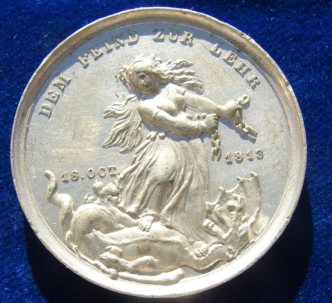 50th Anniversary Medallion d.= 40 mm. The Battle of Leipzig or Battle of the Nations (German: Völkerschlacht